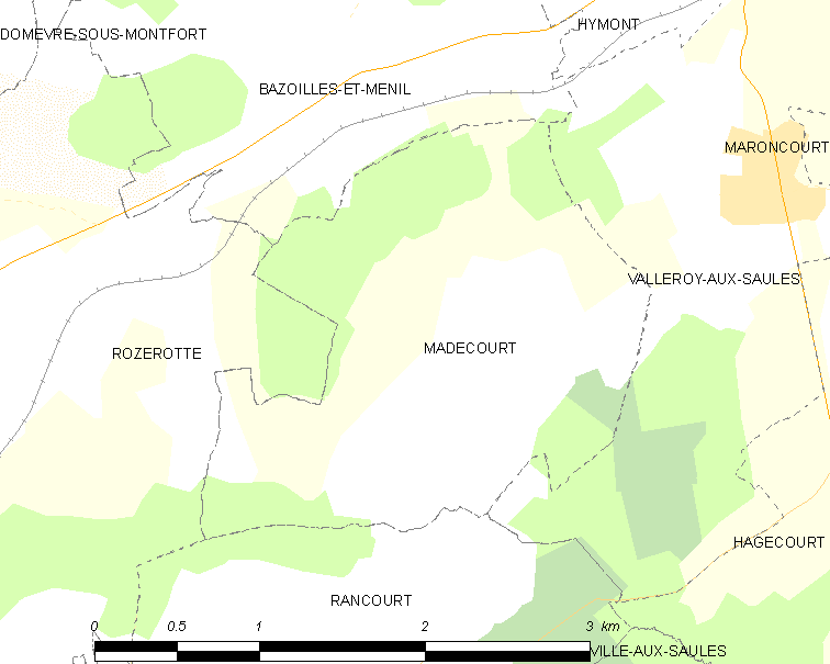 Map of French municipality Madecourt